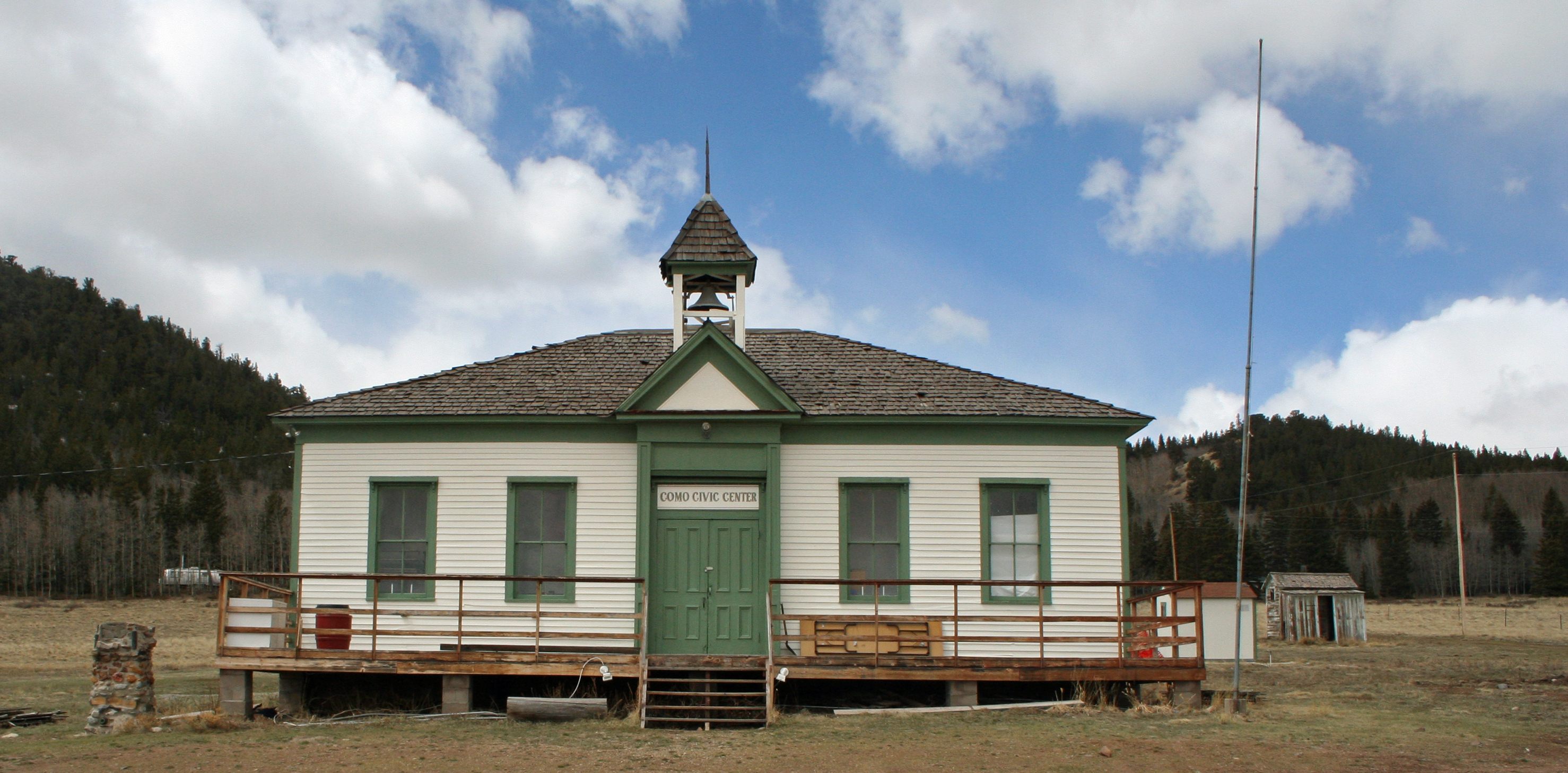 The Como School in Como, Colorado. The building is listed on the National Register of Historic Places in Park County, Colorado. The building was last used as a school in 1948. Now it is owned by the Como Civic Association.